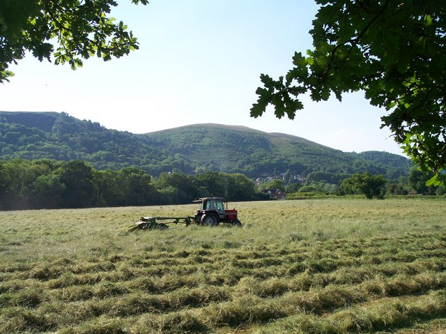 Mowing near Mayall's Coppice. The first of probably two cuts in the year. Whether for silage or hay we shall have to wait and see. The weather has been hot and dry for a week now and the farmer workers have been busy getting round several grass fields. The smell of fresh cut grass is heavenly.